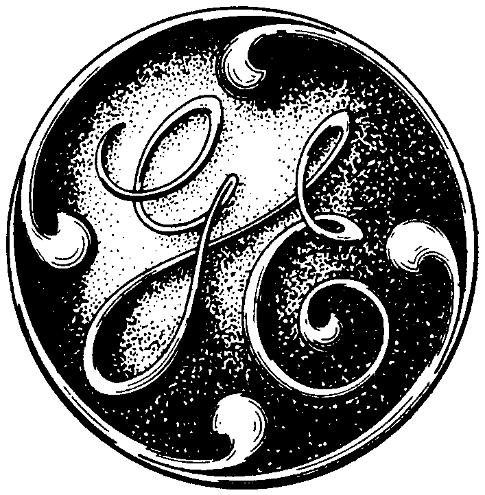 The original version of the circular logo and trademark of the General Electric Company. The trademark application was filed on July 24, 1899, and registered on September 18, 1900 to the General Electric Company, of Schenectady, New York, a corporation incorporated in New York. The date of the trademark's first use, given in the original 1900 registration certificate, is the month of May, 1899. The trademark's U.S. trademark registration number is 0035089. This trademark is still registered to the General Electric Company.